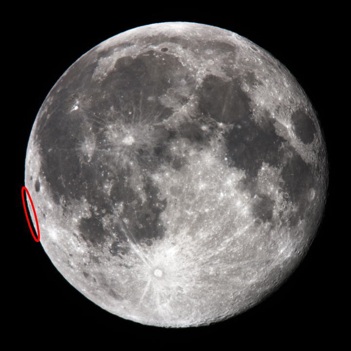 The Location of Mare Orientale, One of the Lunar Geographical Features.